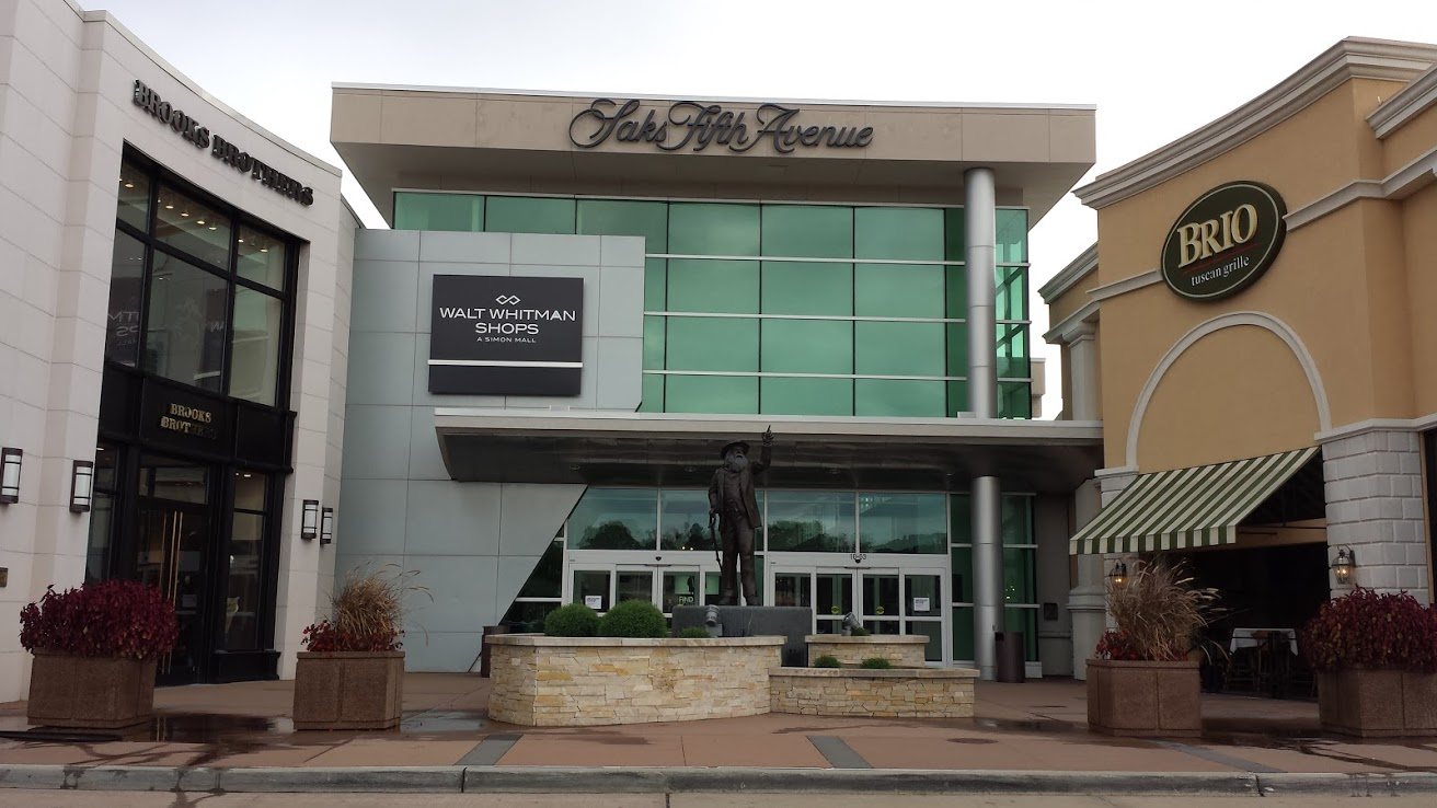 View of the Walt Whitman statue in front of the Walt Whitman Shops mall located in South Huntington, New York